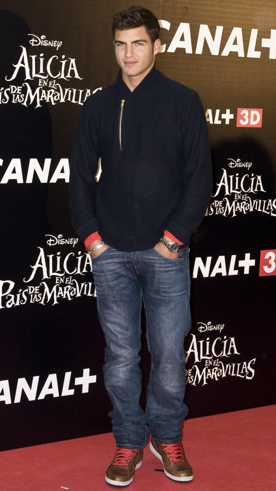 Maxi Iglesias Spanish actor at the photocall of Alice in Wonderland in 2010.